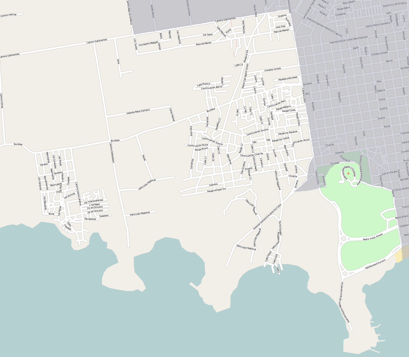 Street map of Casabo and Santa Catalina, Montevideo, exported from OpenStreetMap. I added shading to delimit the barrio. This map may be incomplete, and may contain errors. Don't rely solely on it for navigation.